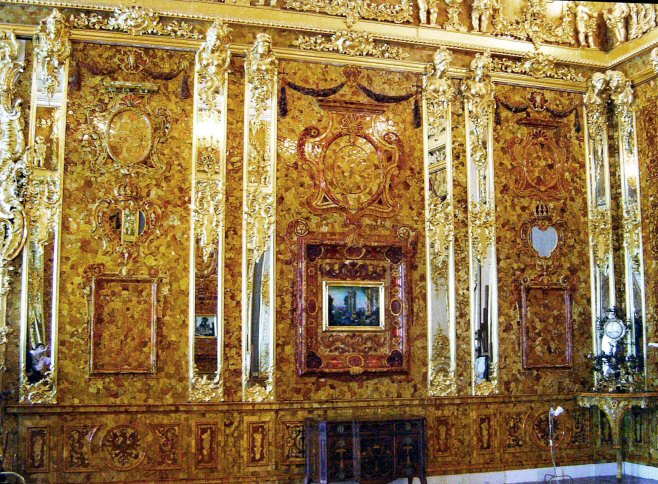 Pushkin (Russia), Amber room of the Catherine Palace